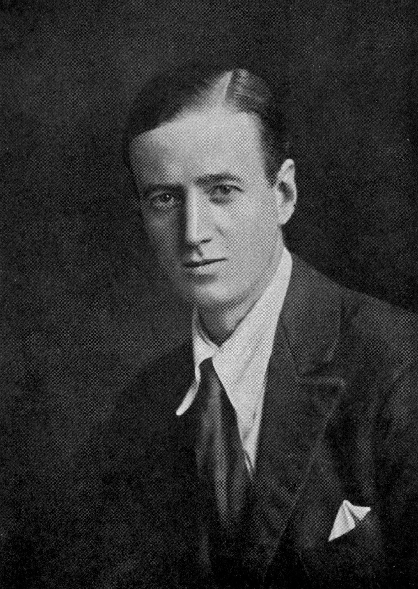 Portrait photo of British writer and journalist Douglas Goldring (1887-1960).